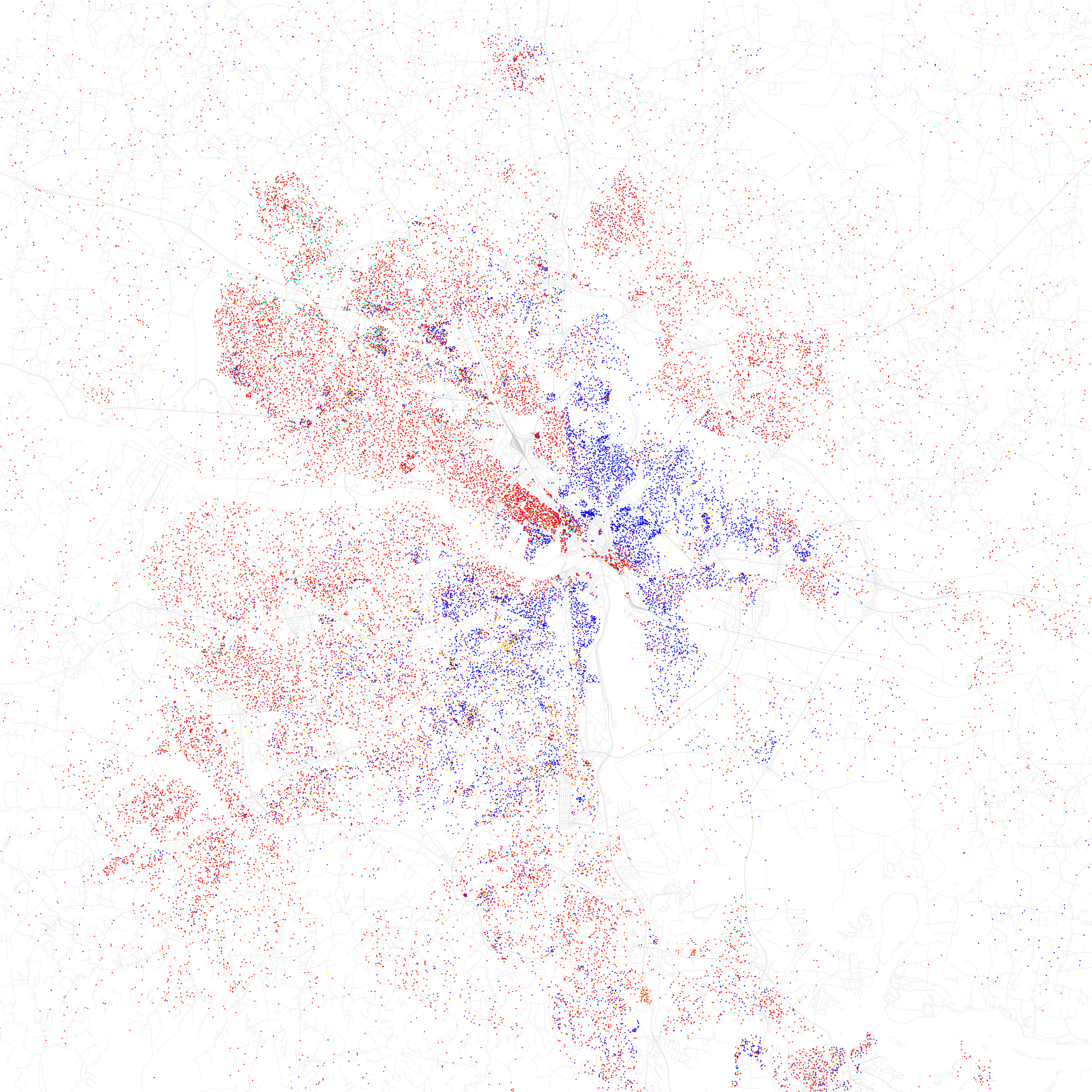 Maps of racial and ethnic divisions in US cities, inspired by Bill Rankin's map of Chicago, updated for Census 2010. Red is White, Blue is Black, Green is Asian, Orange is Hispanic, Yellow is Other, and each dot is 25 residents. Data from Census 2010. Base map © OpenStreetMap, CC-BY-SA